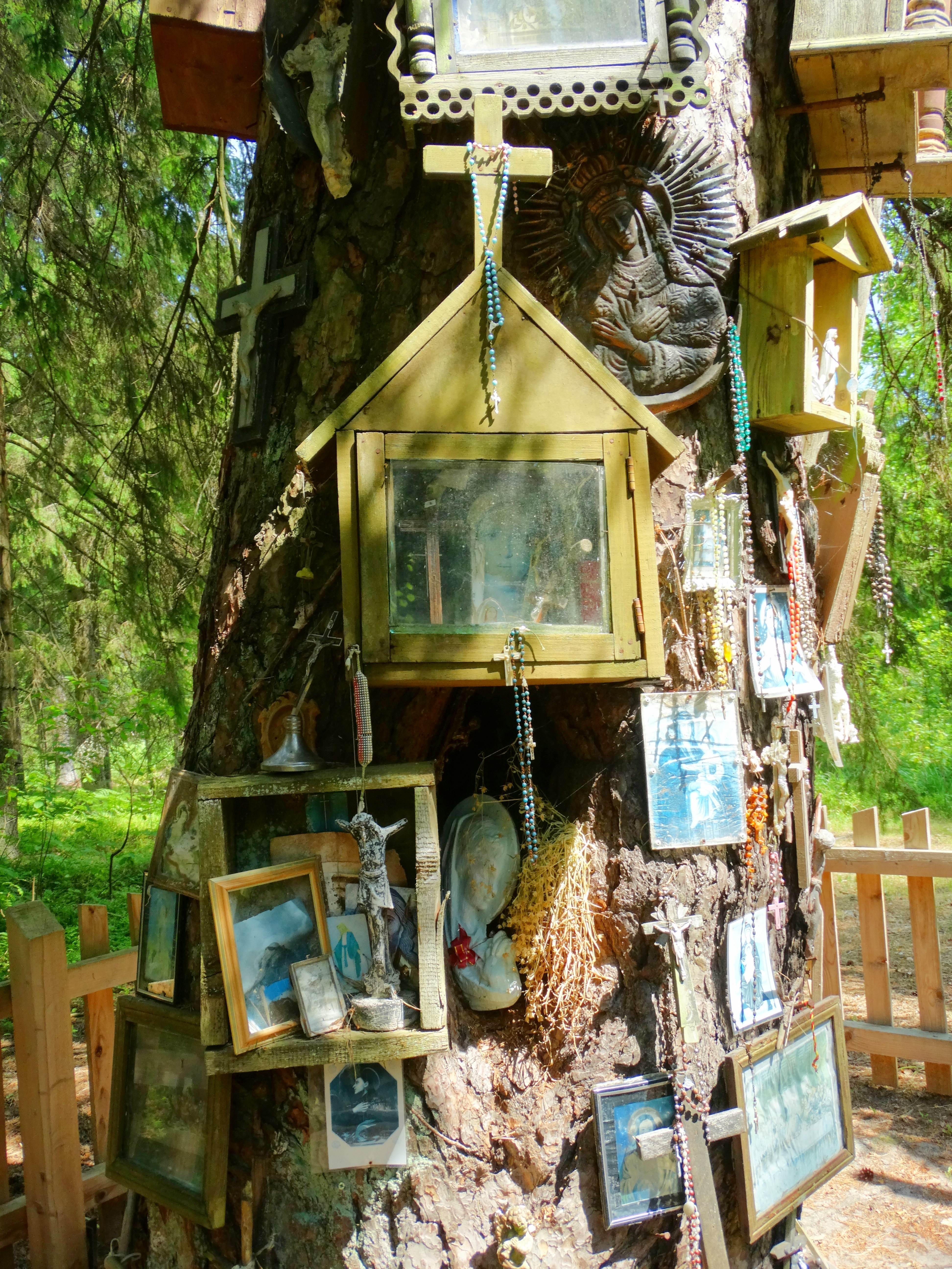 St. Martin's pine tree, Kelmė district, Lithuania